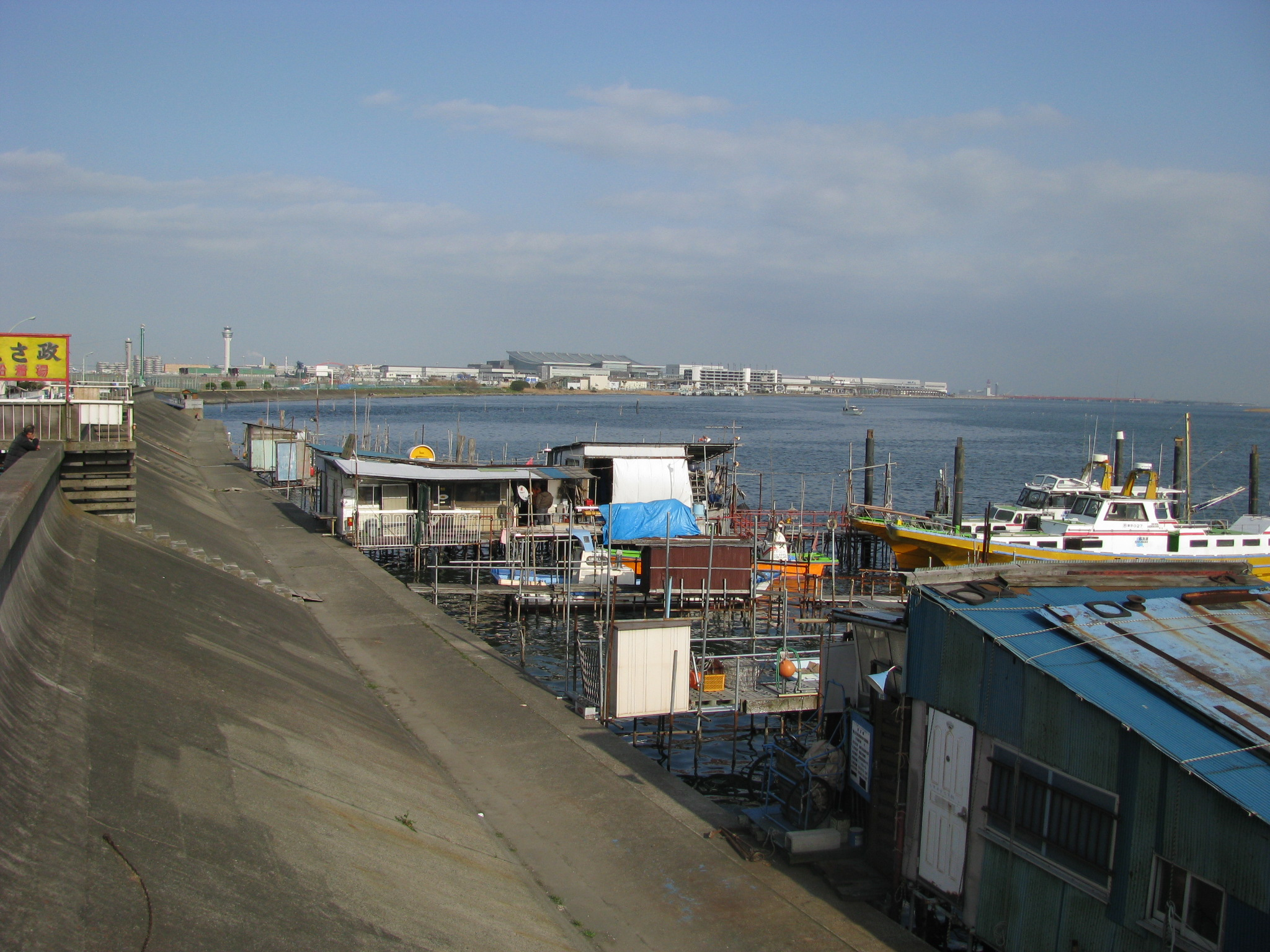 Here is Haneda fishing port, and Haneda airport in the distance. Haneda is located in Ota, Tokyo, Japan.